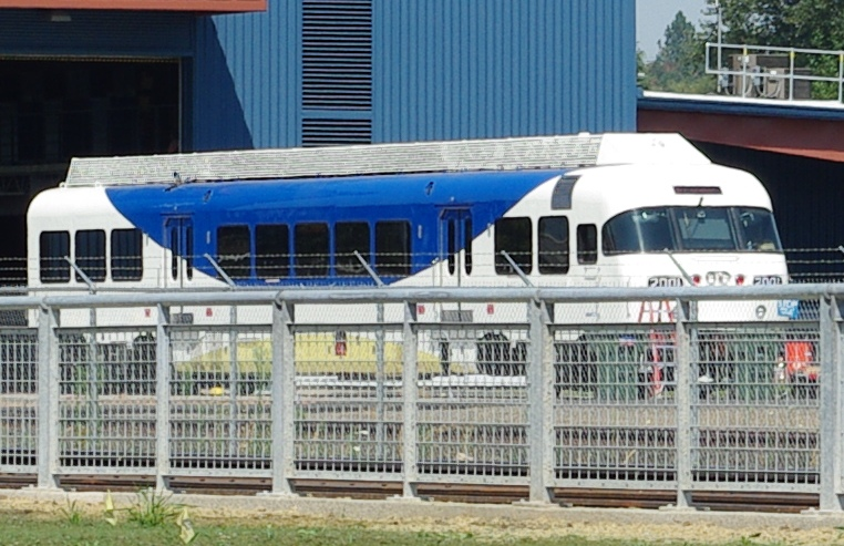 Westside Express Service commuter rail car at Wilsonville maintenance facility.